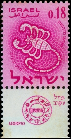 Zodiac I stamp - 0.18 Israeli lira - Sign of Scorpio, Month of Heshvan